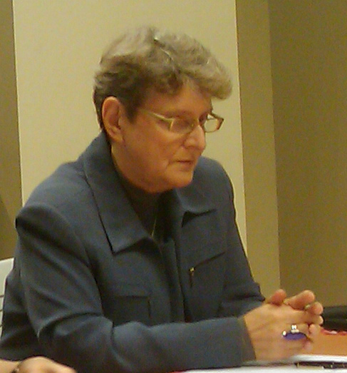 Russian human rights activist Svetlana Gannushkina at a conference in Spain, November 2009